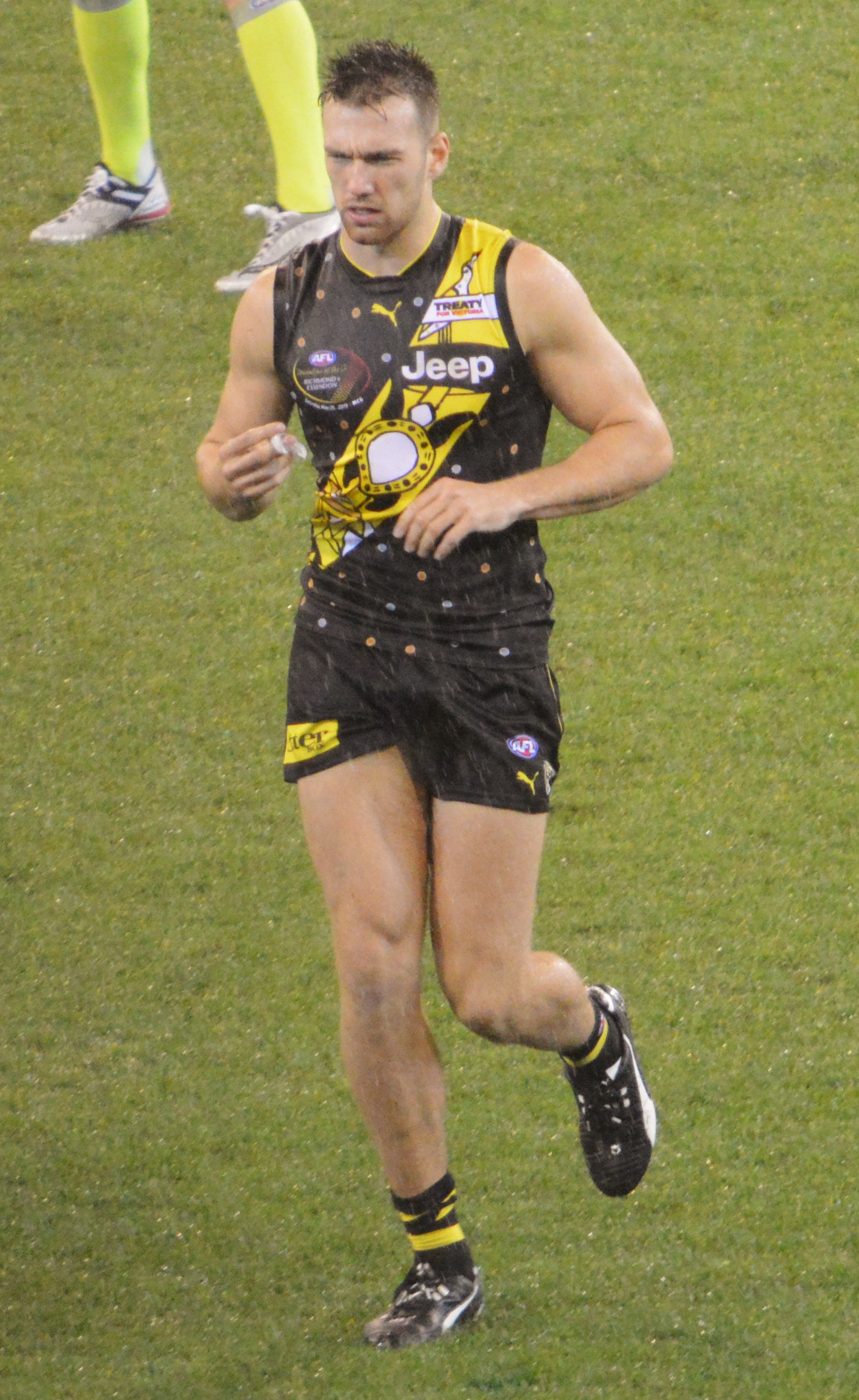 Noah Balta with Richmond in the round 10 Dreamtime at the 'G AFL match against Essendon at the MCG on 25 May 2019.